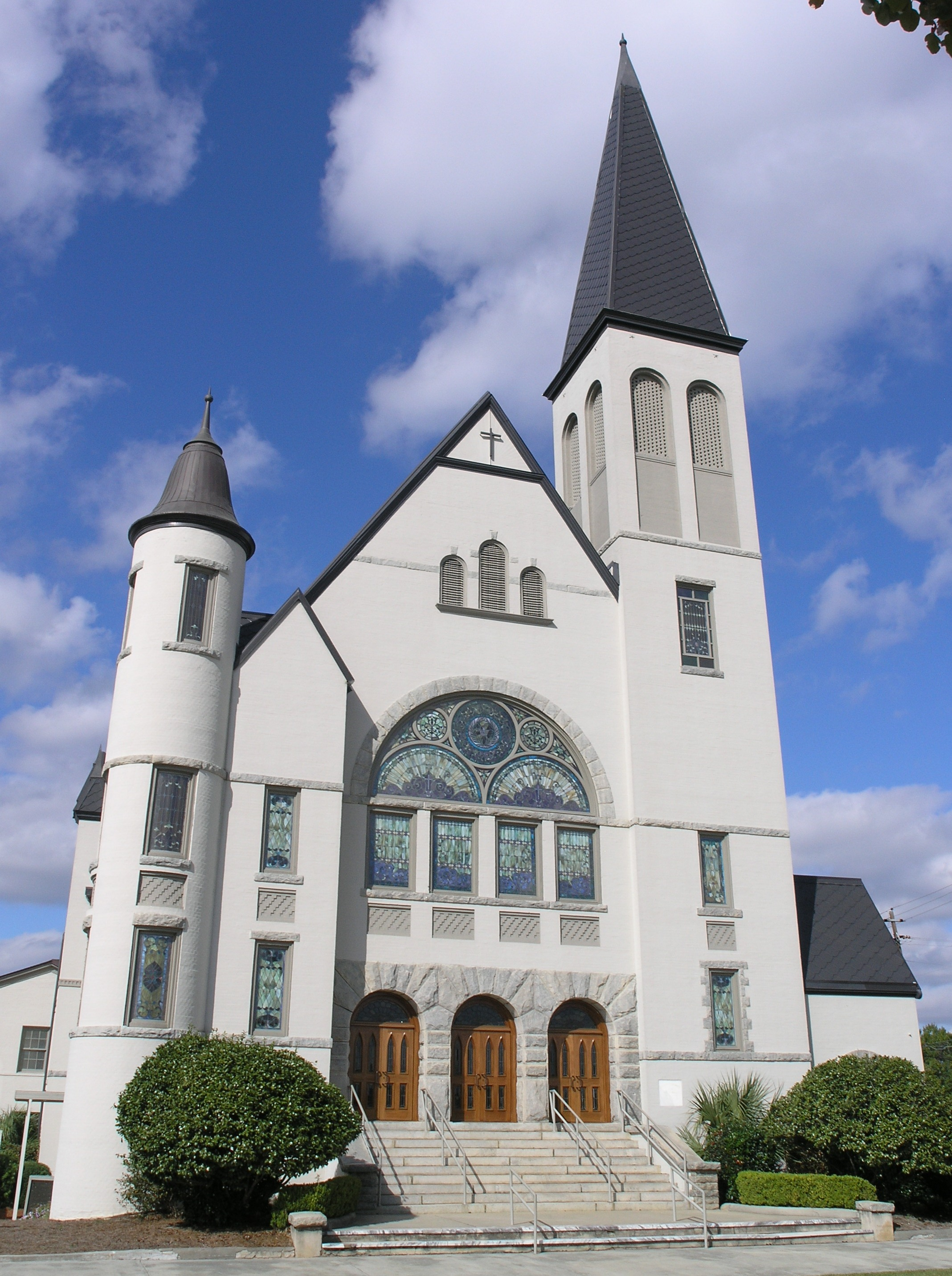 Picture of Valdosta, Georgia